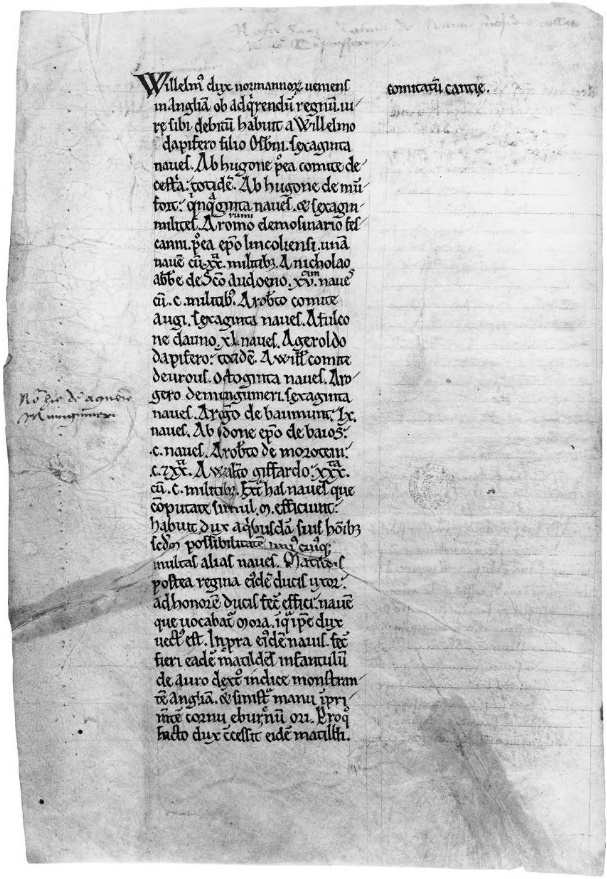 Ship list of William the Conqueror (Bodleian Library MS E Museo 93 folio 8v). Original document was probably written at Fécamp after 13 December 1067 or circa 1072; this copy from Battle Abbey is dated paleographically to 1130–1160. The document gives a list of 14 lay and ecclesiastical magnates of Normandy as well as the numbers of ships and knights they owed to the future William the Conqueror, then duke of Normandy. It also describes the ship Mora provided by duchess Matilda. Ecclesiastics are: Odo, Bishop of Bayeux (William's half-brother); Nicolas, abbot of Saint-Ouen (William's cousin; son of Richard III, Duke of Normandy); Remigius, monk of Fécamp, future Bishop of Lincoln. Laymen are: Robert, Count of Mortain (William's half-brother); Robert, Count of Eu; Robert de Beaumont; Roger de Montgomerie; Hugh de Montfort; William FitzOsbern. Full text